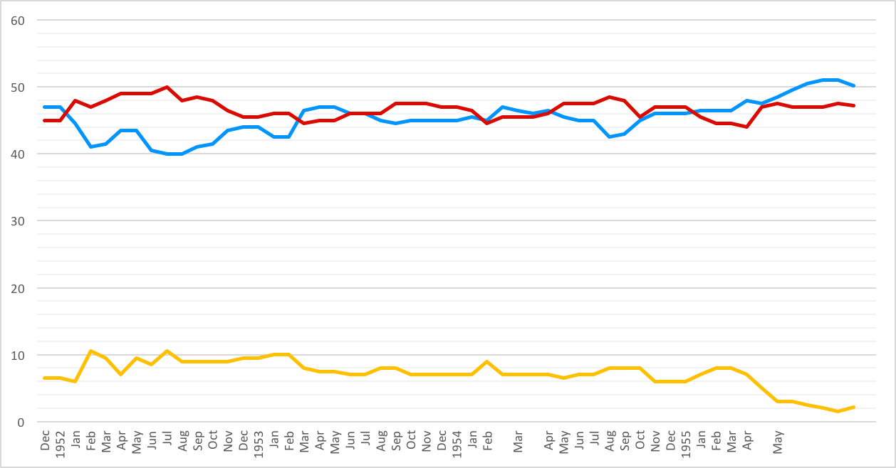 Polling graph for the 1955 UK general election